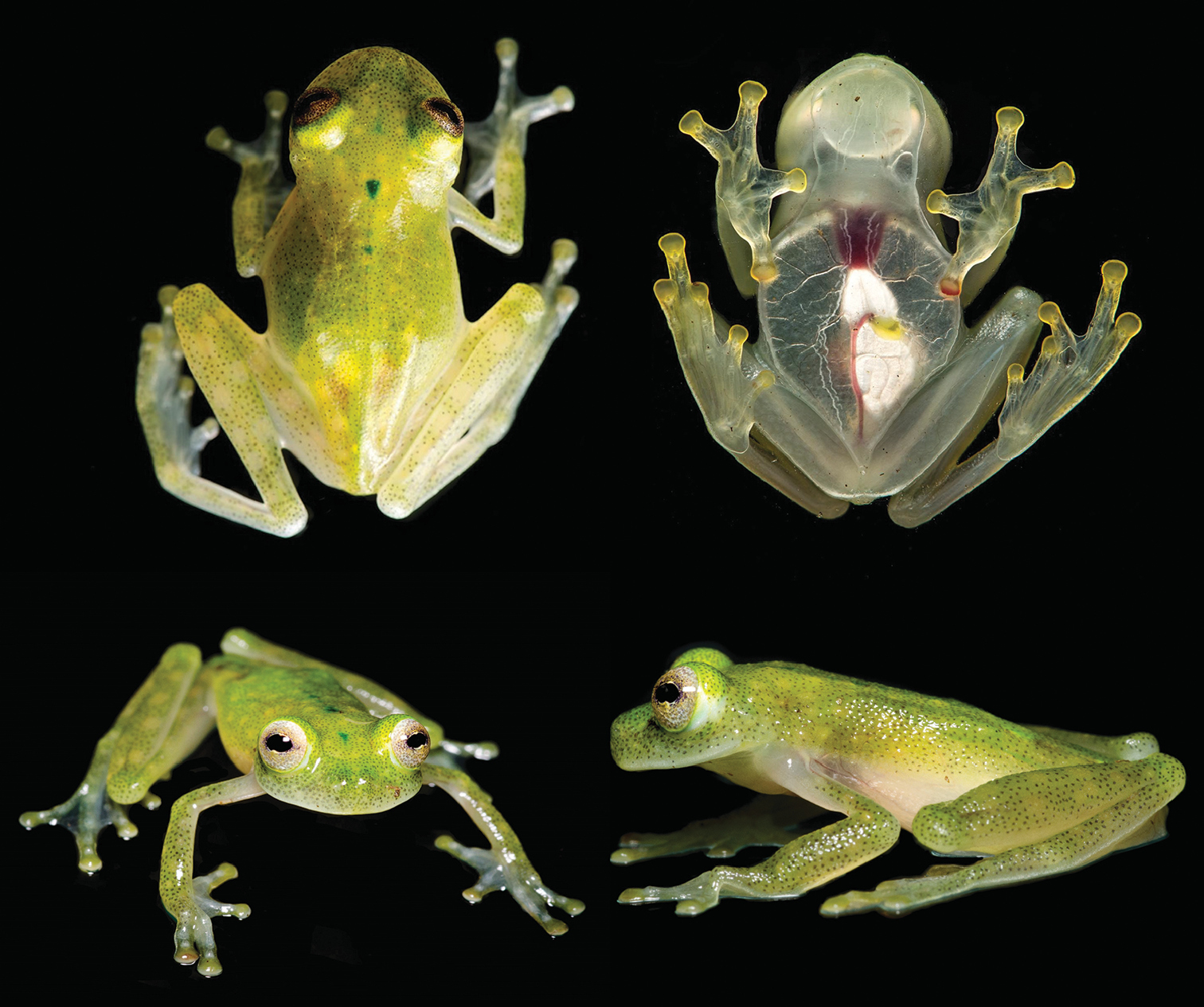 Hyalinobatrachium yaku sp. n. in life. Top row: adult male, MZUTI 5001, holotype, in dorsal and ventral view. Bottom row: adult male, paratype, QCAZ 55628.